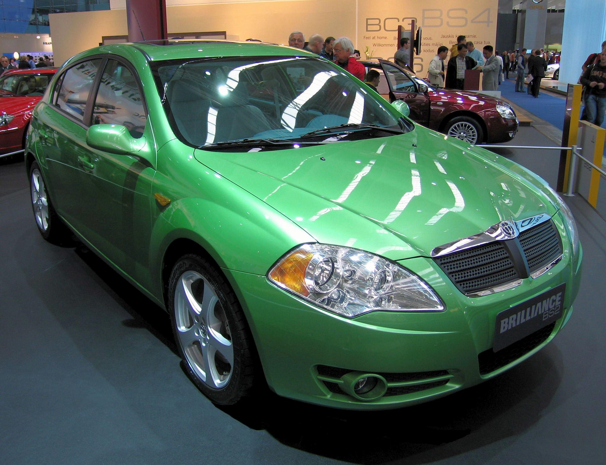 Brilliance BS2 at the IAA 2007 2007-Sept.-19